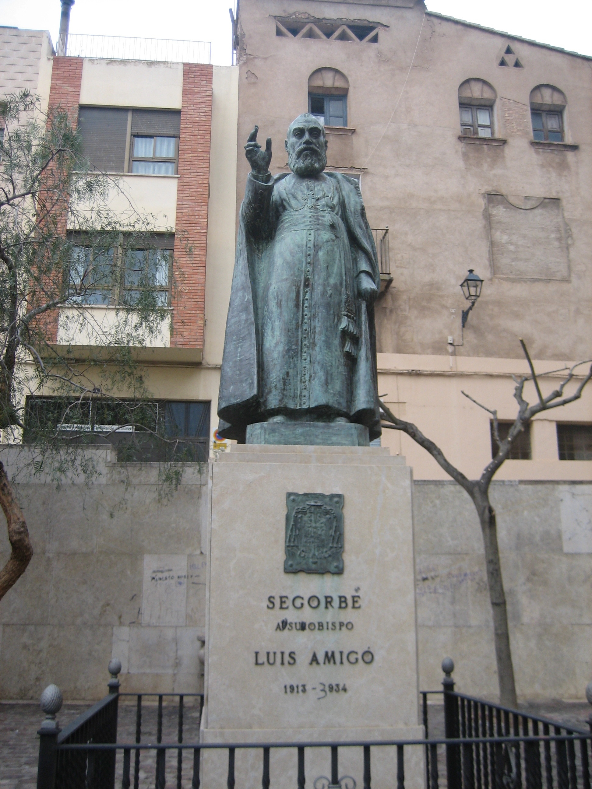 Luis Amigó sculpture in front of Segorbe Cathedral